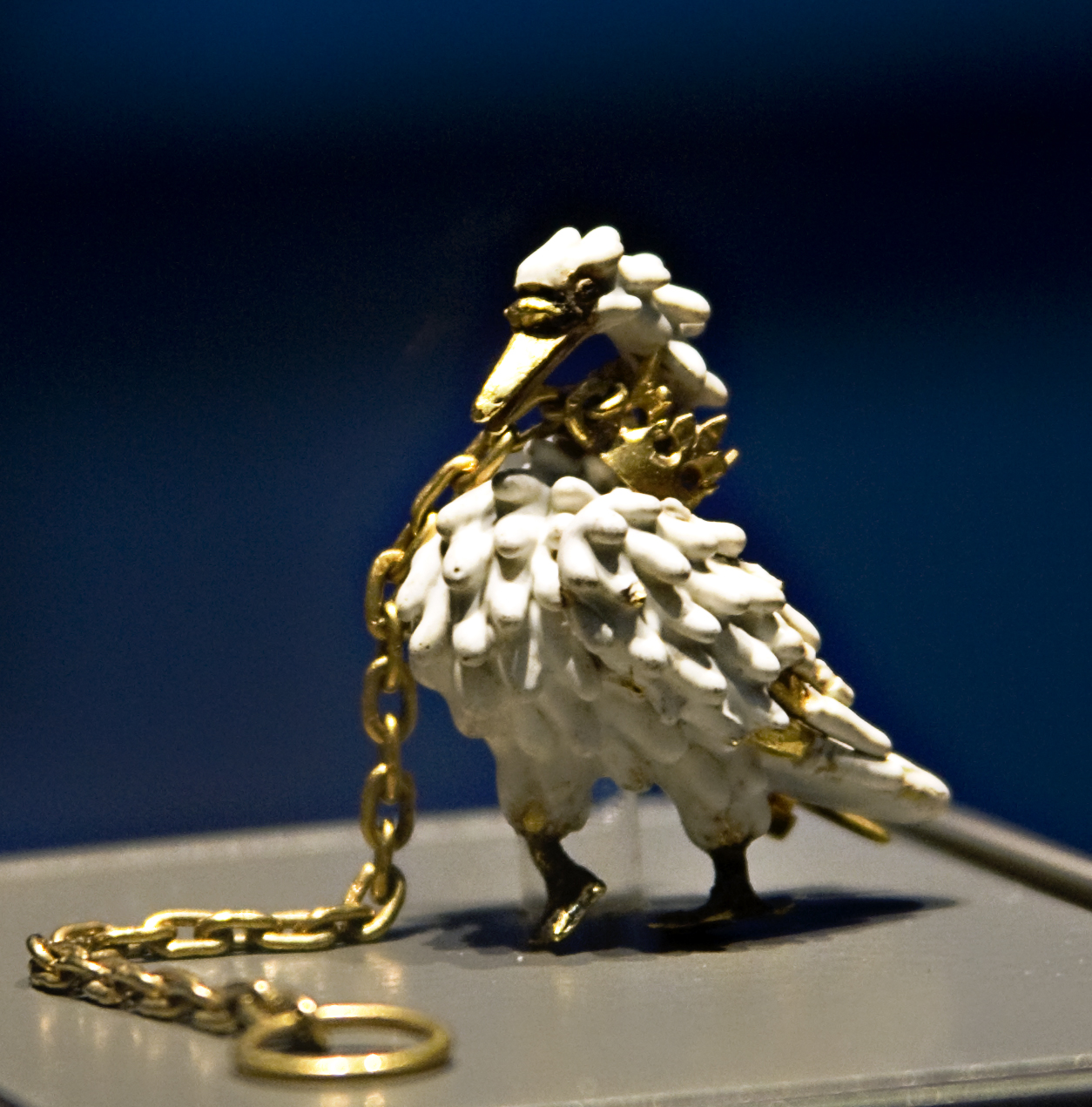 The Dunstable Swan Jewel from the British Museum. Tag on exhibit states: "The Dunstable Swan Jewel. Knights were sometimes eager to demonstrate their descent from the Arthurian knights, such as the legendary Knight of the Swan. The Dunstable Swan Jewel was found in a Dominican Priory, Dunstable. It may have been worn to indicate an allegiance to the de Bohun family or to the House of Lancaster. King Henry IV (reigned 1399-1413) took the symbol of the swan when he married Mary de Bohun in 1380. About 1400, England or France, gold, enamel. PE 1966,0703.1; purchased with a contribution from The Art Fund, The Pilgrim Trust and the Worshipful Company of Goldsmiths" See BM database entry for more details.